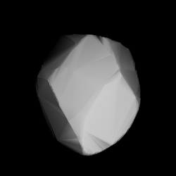 3D convex shape model of 1281 Jeanne, computed using light curve inversion techniques. J. Hanuš, J. Ďurech, M. Brož, B. D. Warner (June 2011). "A study of asteroid pole-latitude distribution based on an extended set of shape models derived by the lightcurve inversion method". Astronomy and Astrophysics 530: A134. ISSN 0004-6361. arXiv